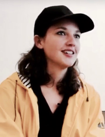 Jain is a french singer